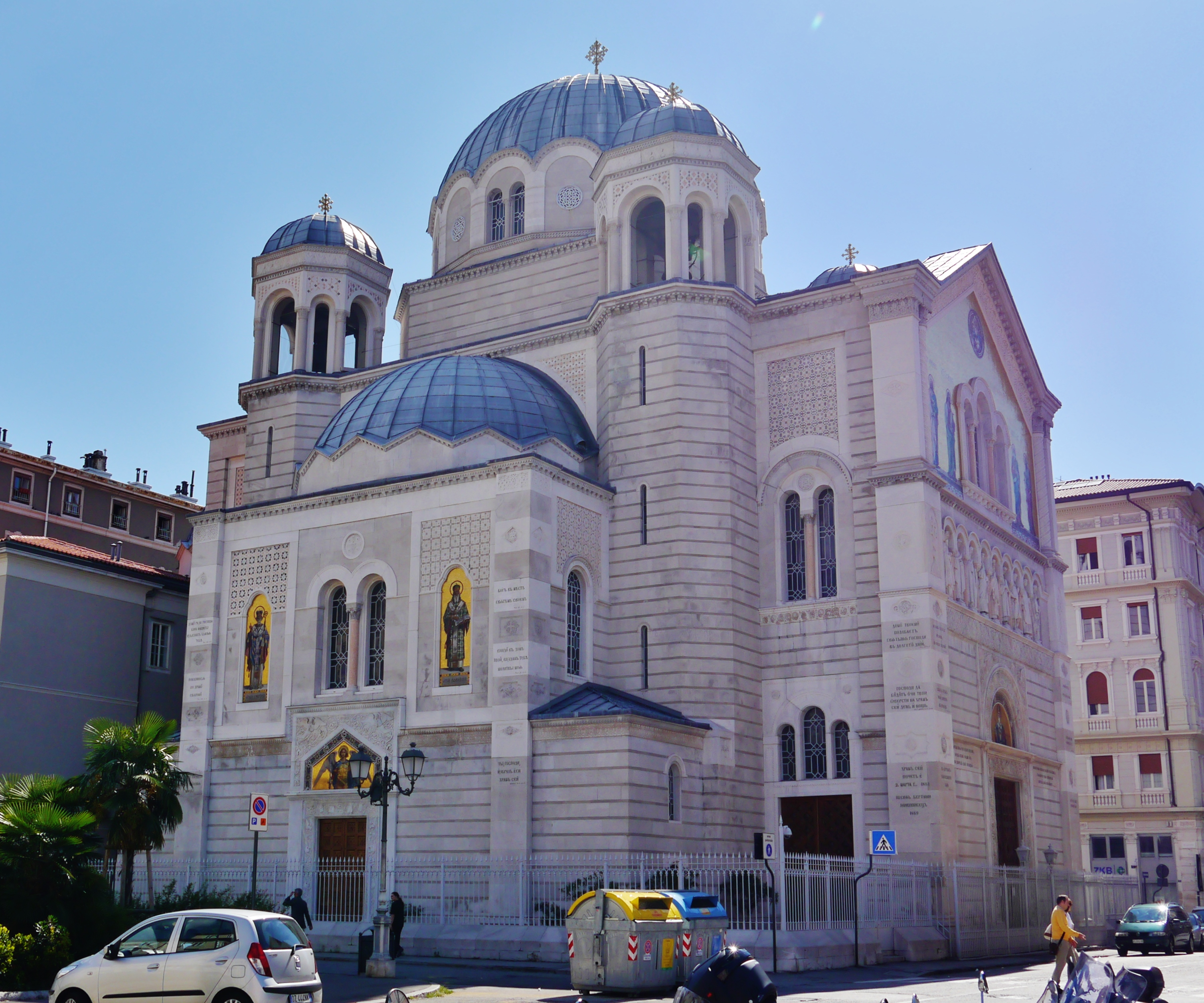 Serbian Orthodox Church San Spiridone, Trieste, Friuli-Venezia Giulia, Italy